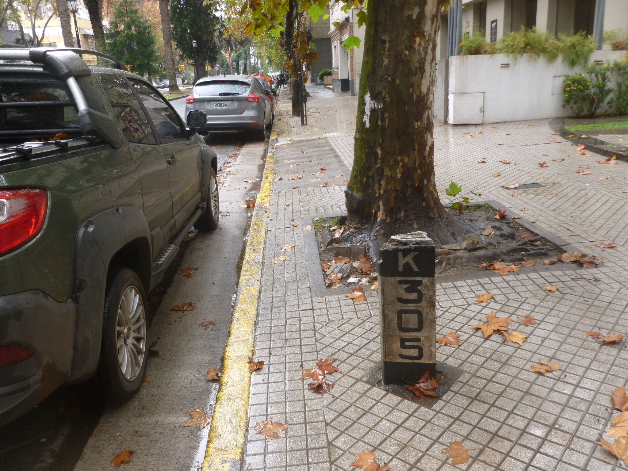 A milestone on the path Boulevard Oroño 30 (between Brown and Güemes) in Rosario, Santa Fe, Argentina.. It remembers old trace of National Route 9 (Argentina).